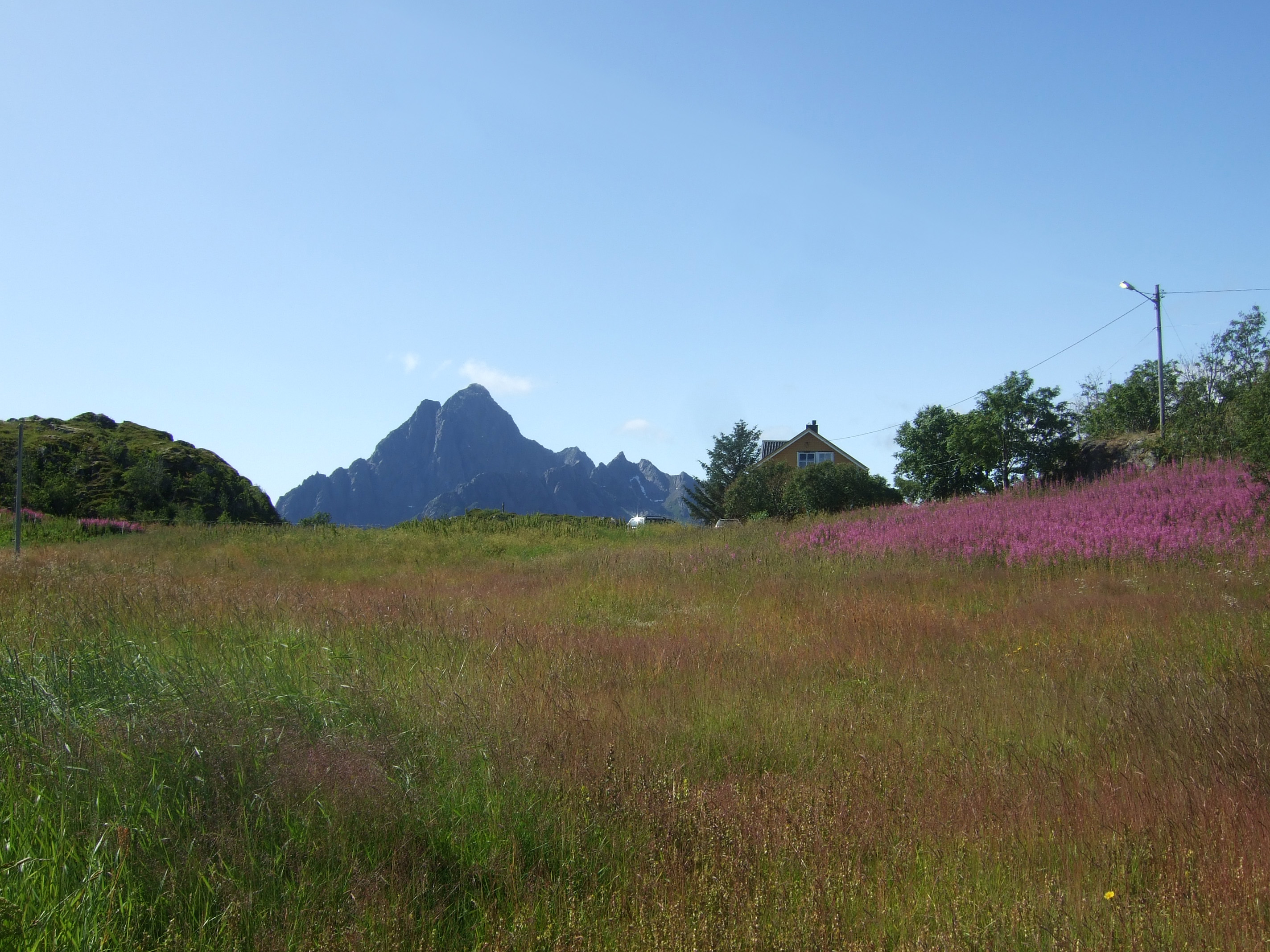 Vágar, location of the oldest town in Northern Norway (near Kabelvåg, Lofoten).